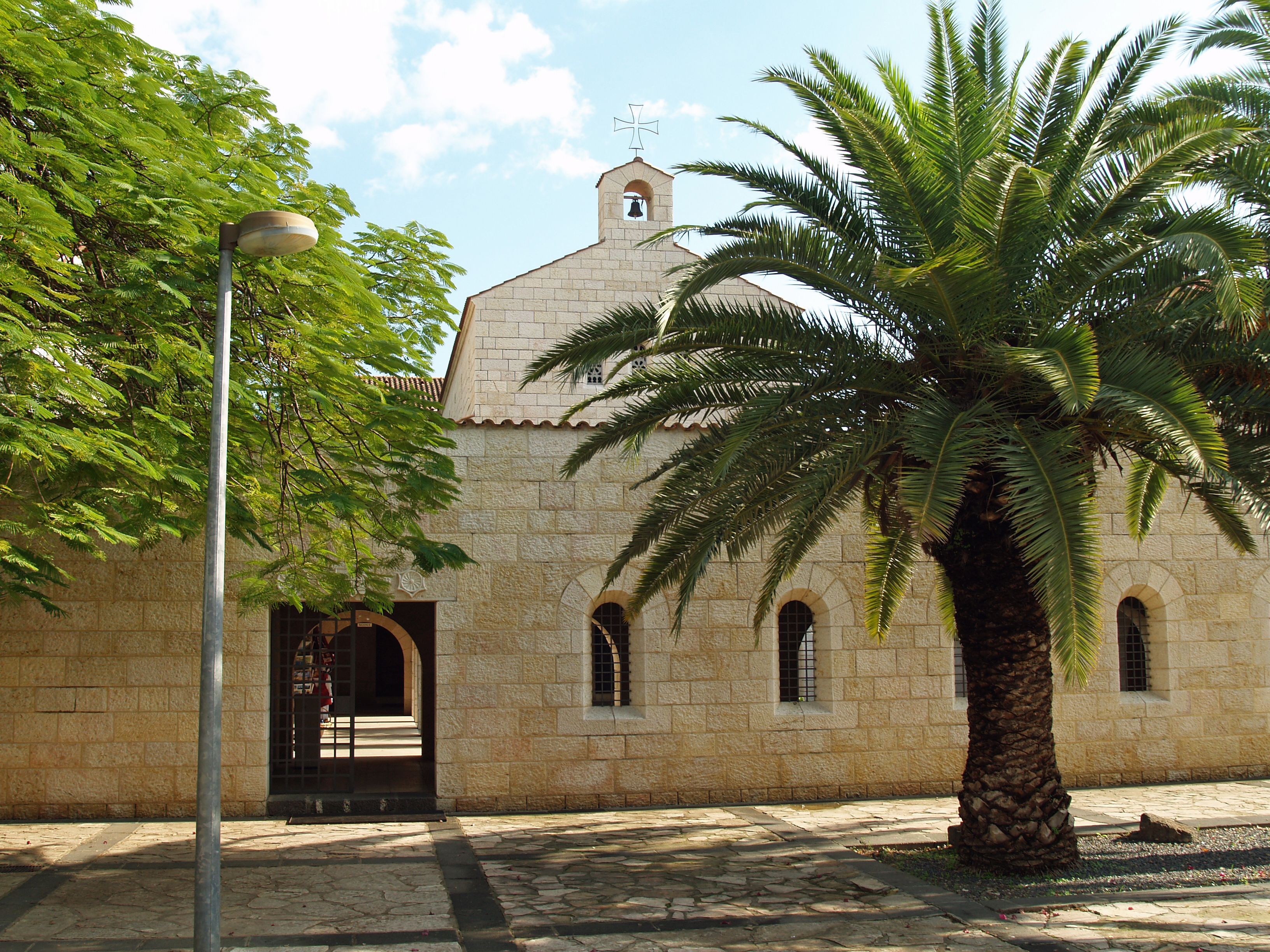 Church of the Multiplication in Tabgha.